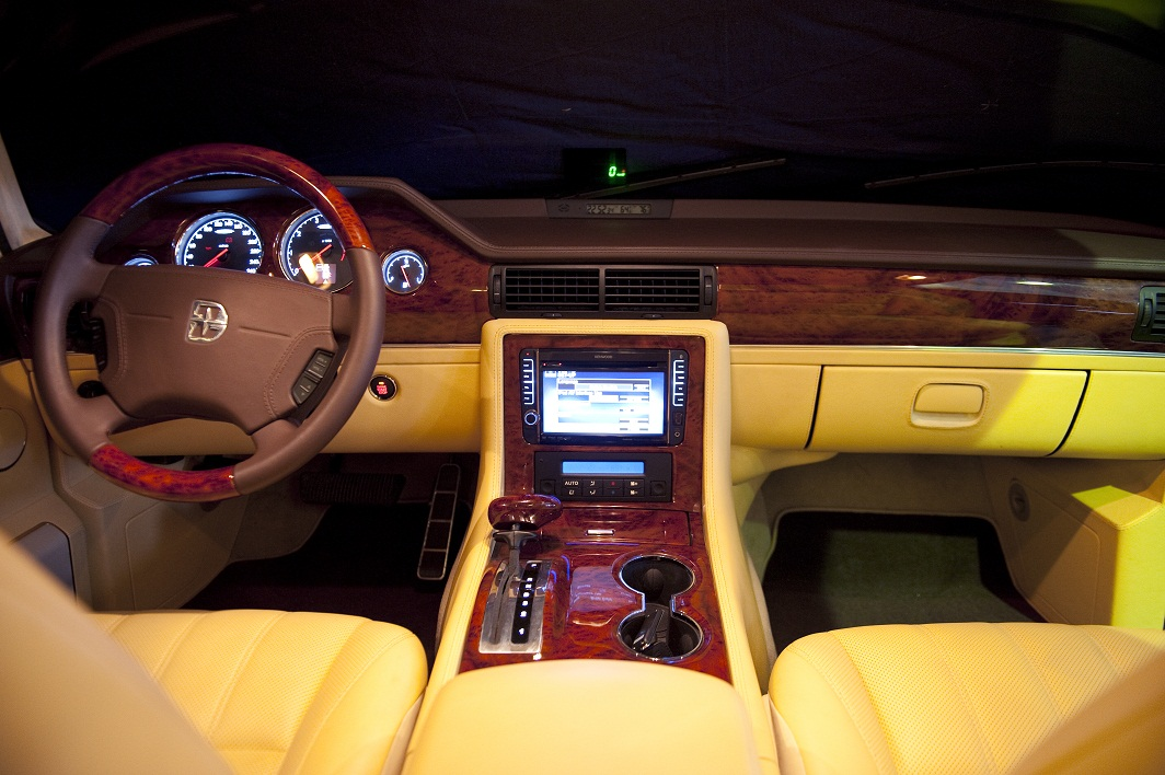 ZIL-4112R